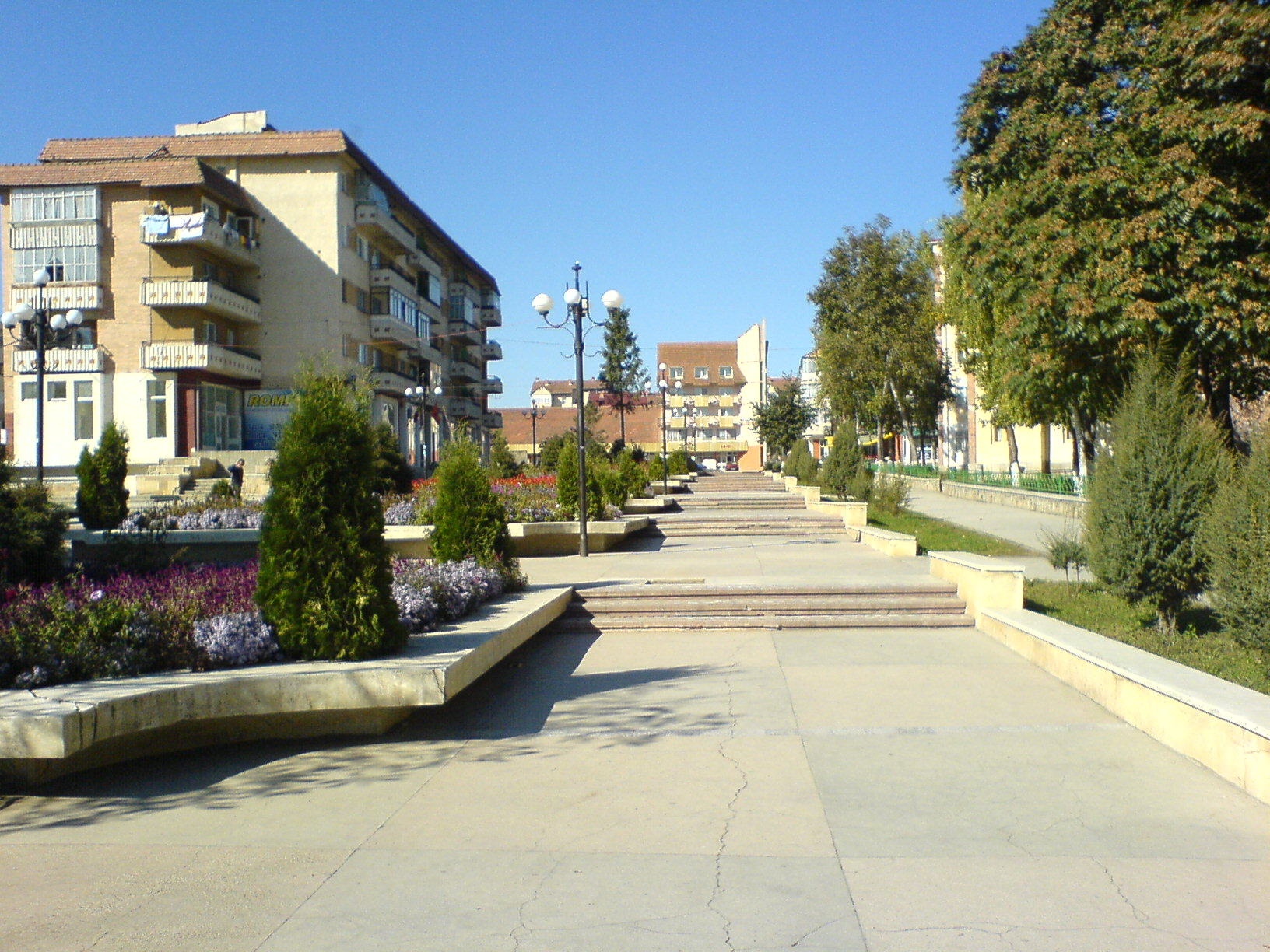 The "Esplanade". Location: Targu Frumos. Iasi County. ROMANIA